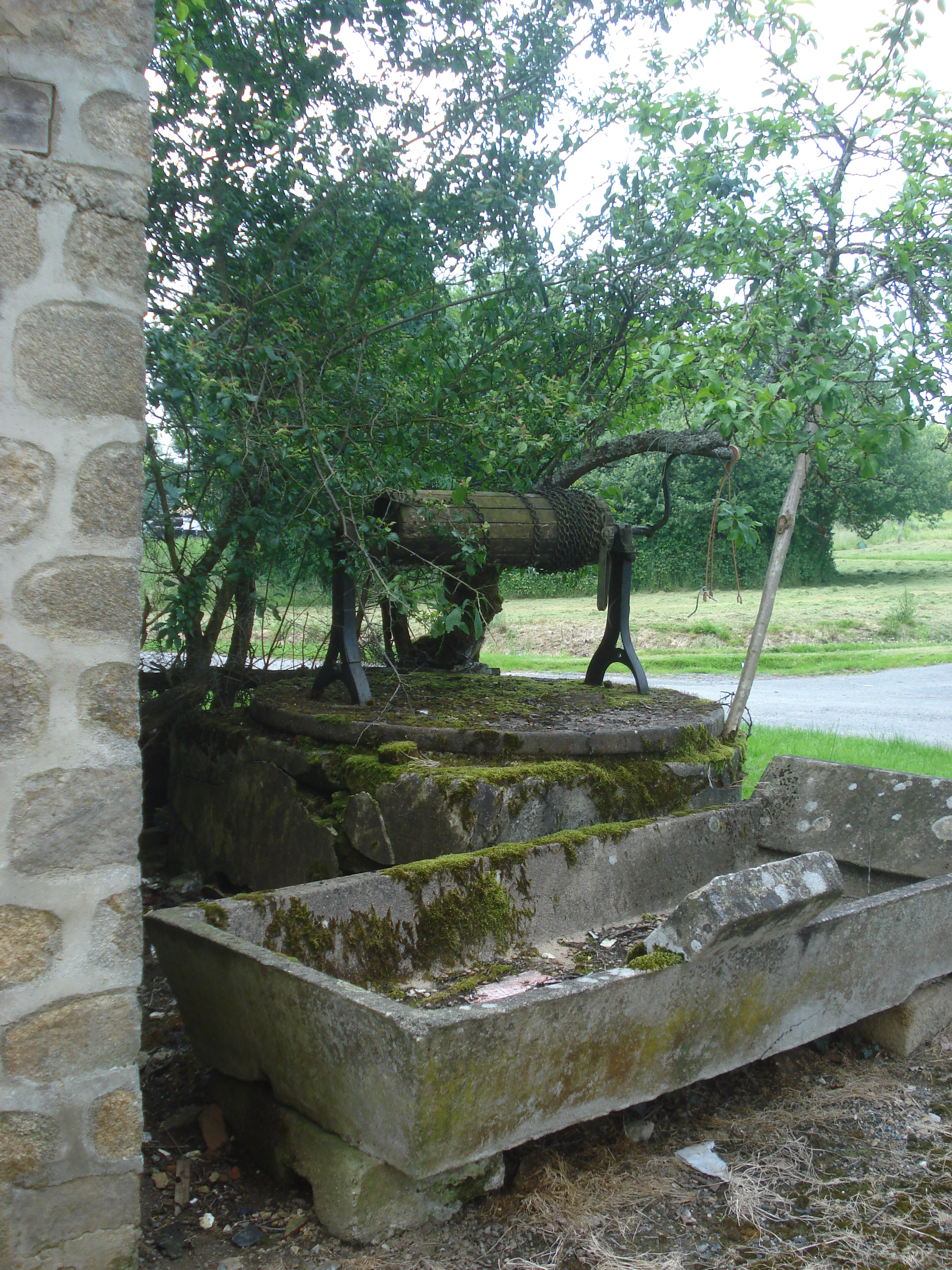 Lorioux, "hameau" of the village of St-Germain-Beaupré (Creuse, Fr) on the St.James road.